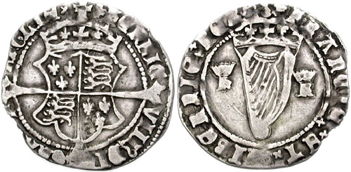 Ireland. Henry VIII of England. 1509-1547. AR Groat (25mm, 2.32 gm, 12h). Second harp issue, as king of Ireland, 1541-1542. London mint (exported). hEnRIC VIII DI GR REX AnGLIE, crowned coat-of-arms over cross fourchee; mm: trefoil FRAnCIE ET hIBERnIE REX, crowned harp; crowned h and crowned R flanking. SCBI 22 (Copenhagen), 409; SCBC 6480; D&F 209. Fine, toned.